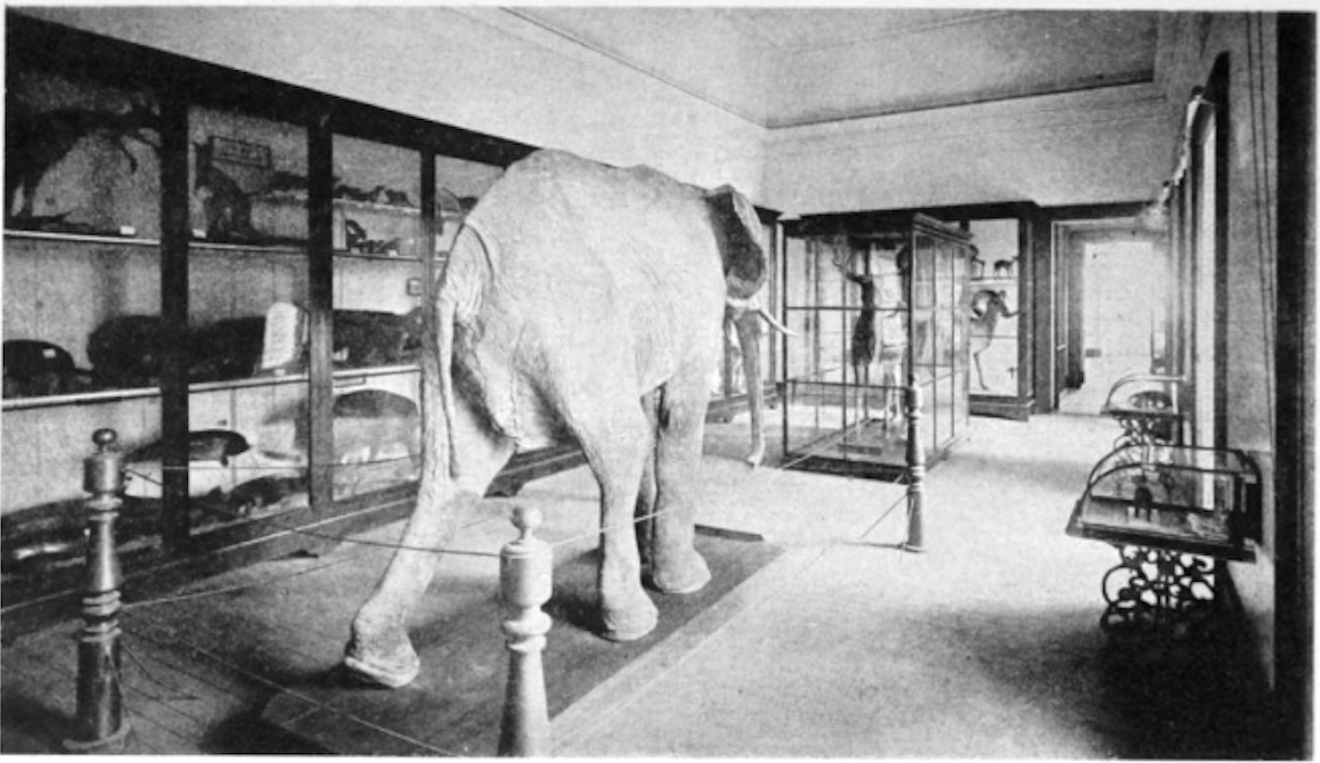 View of exhibition hall in the Museu Nacional do Rio de Janeiro, Brasil.